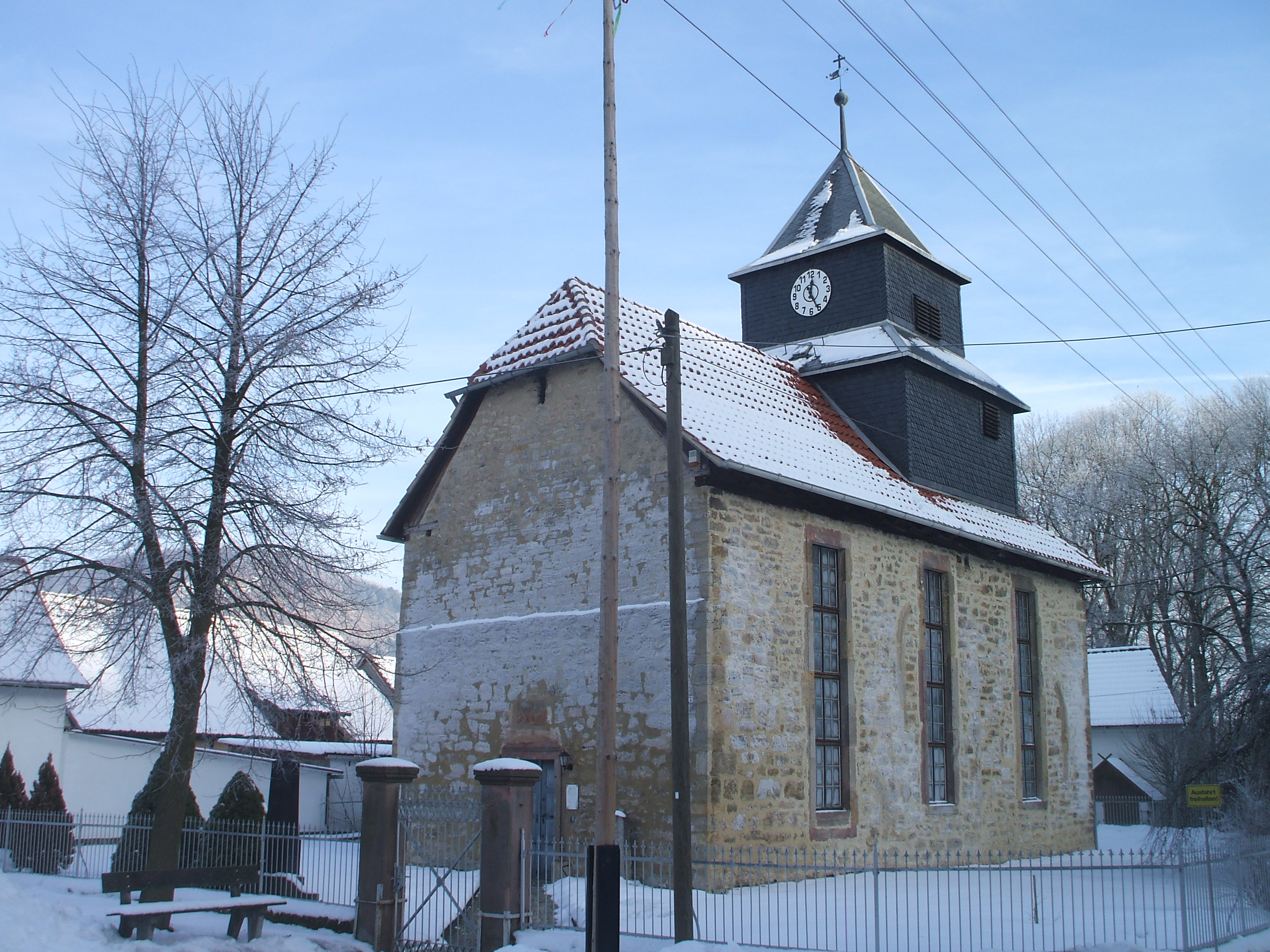 Geunitz, municipality of Reinstädt, Saale-Holzland district, Thuringia, Germany: Church